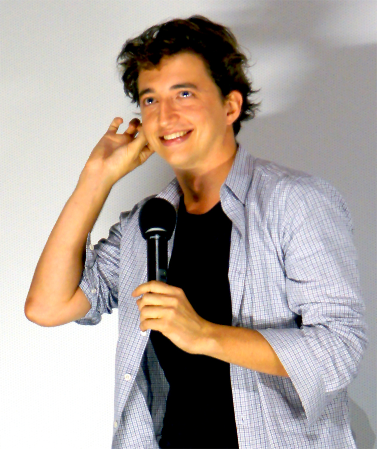 American director Benh Zeitlin discussing his new film Beasts of the Southern Wild at the Fantasy Film Festival in Berlin (Cinemaxx, Potsdamer Platz)